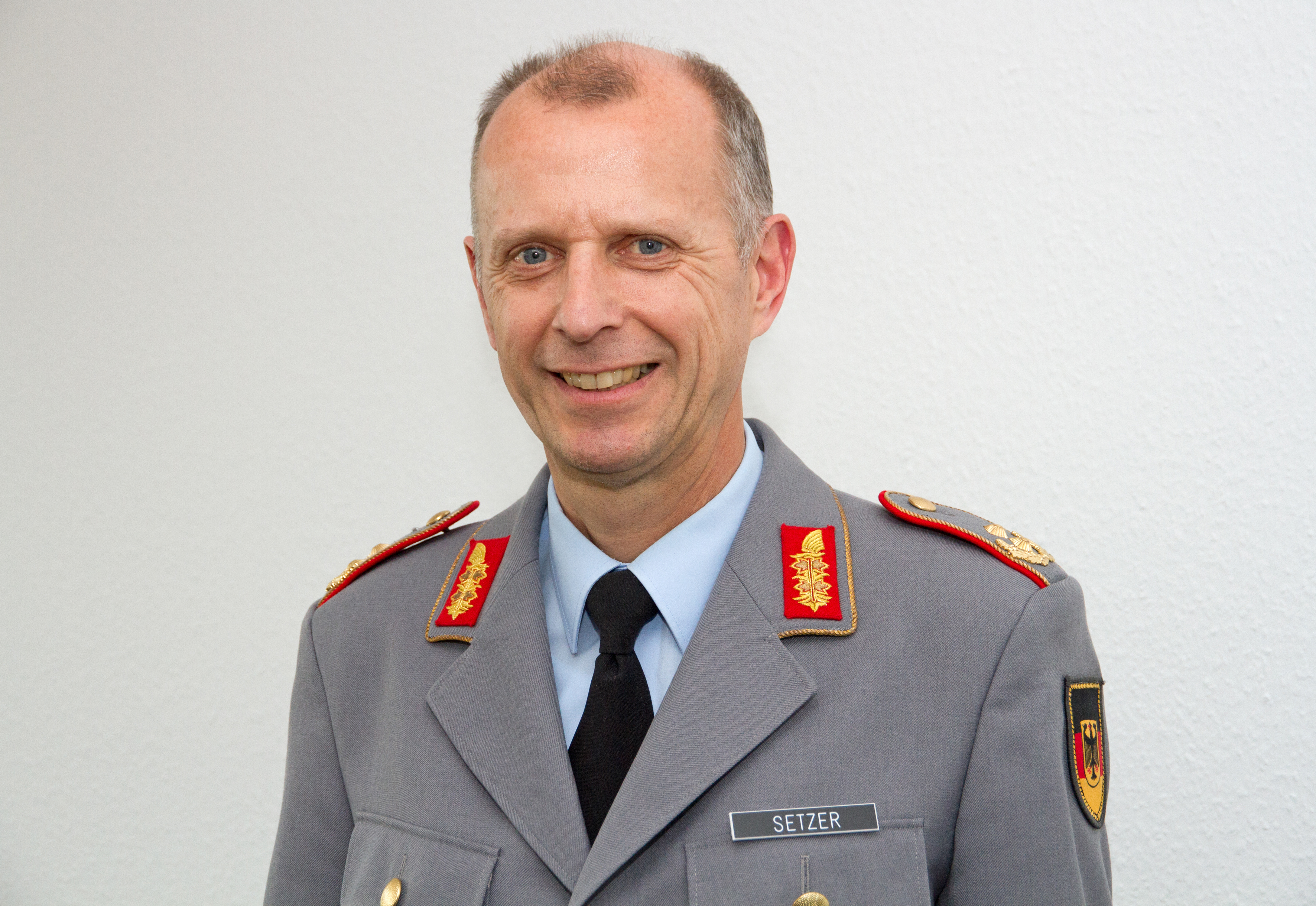 Generalmajor Jürgen Setzer, Stellvertretender Inspekteur Cyber- und Informationsraum in Bonn am 9.05.2018